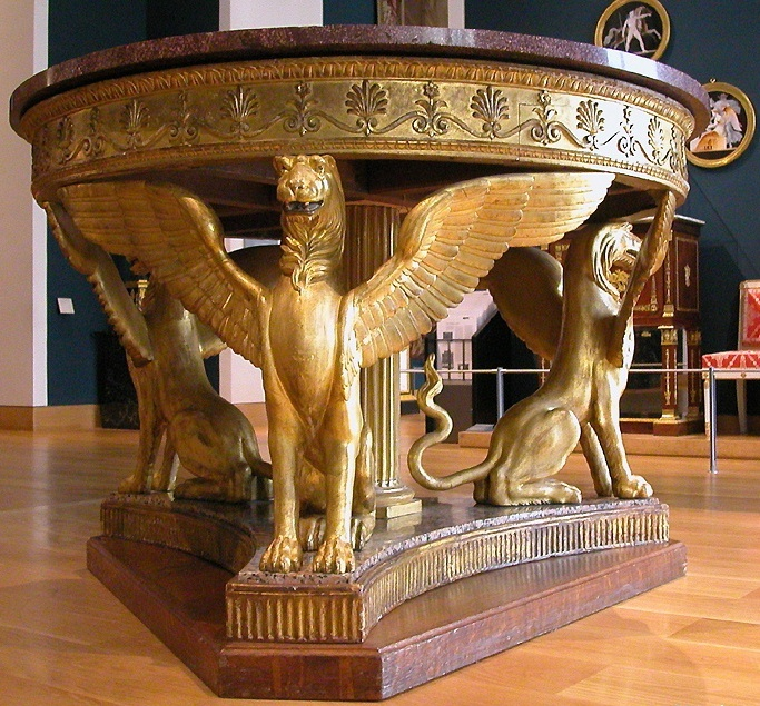 Tripod table in Empire Style